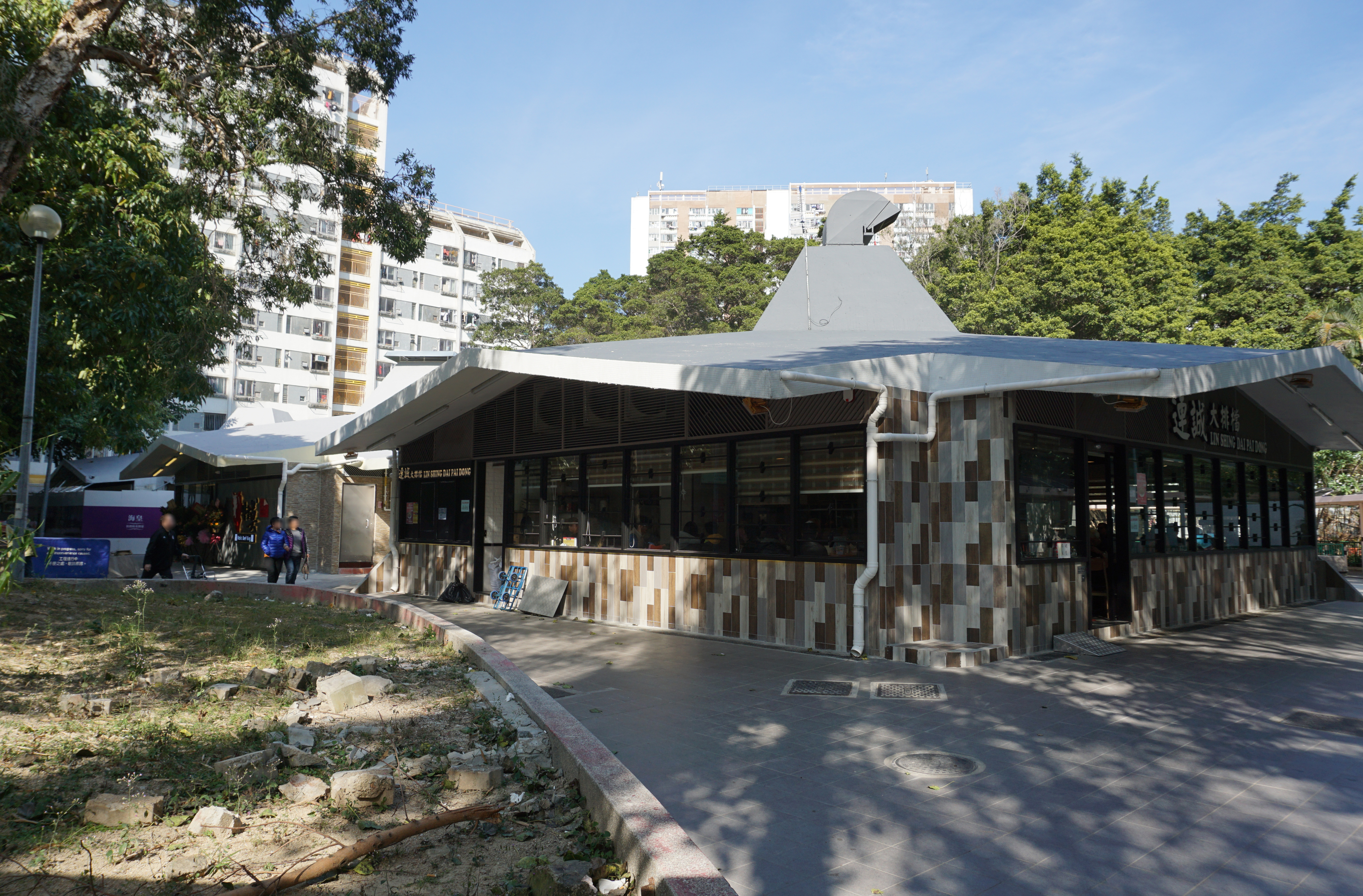 Butterfly Estate in Tuen Mun, Hong Kong.